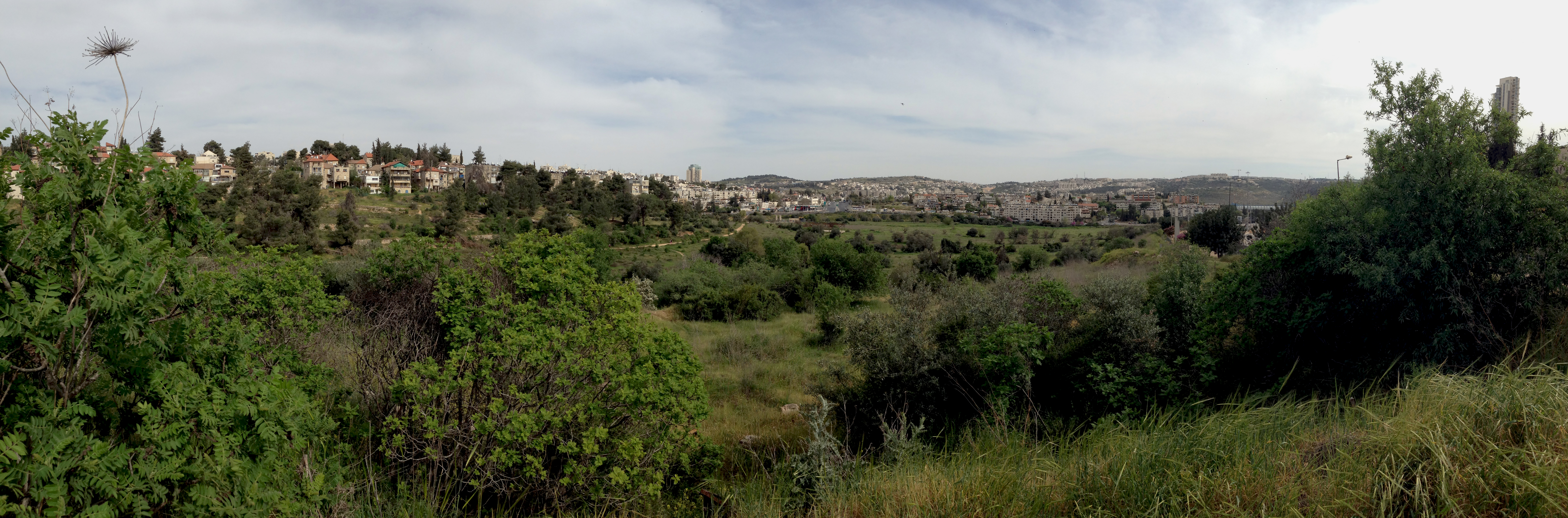 Gazelle Valley in Jerusalem, as seen from the west (near Begin Expressway)